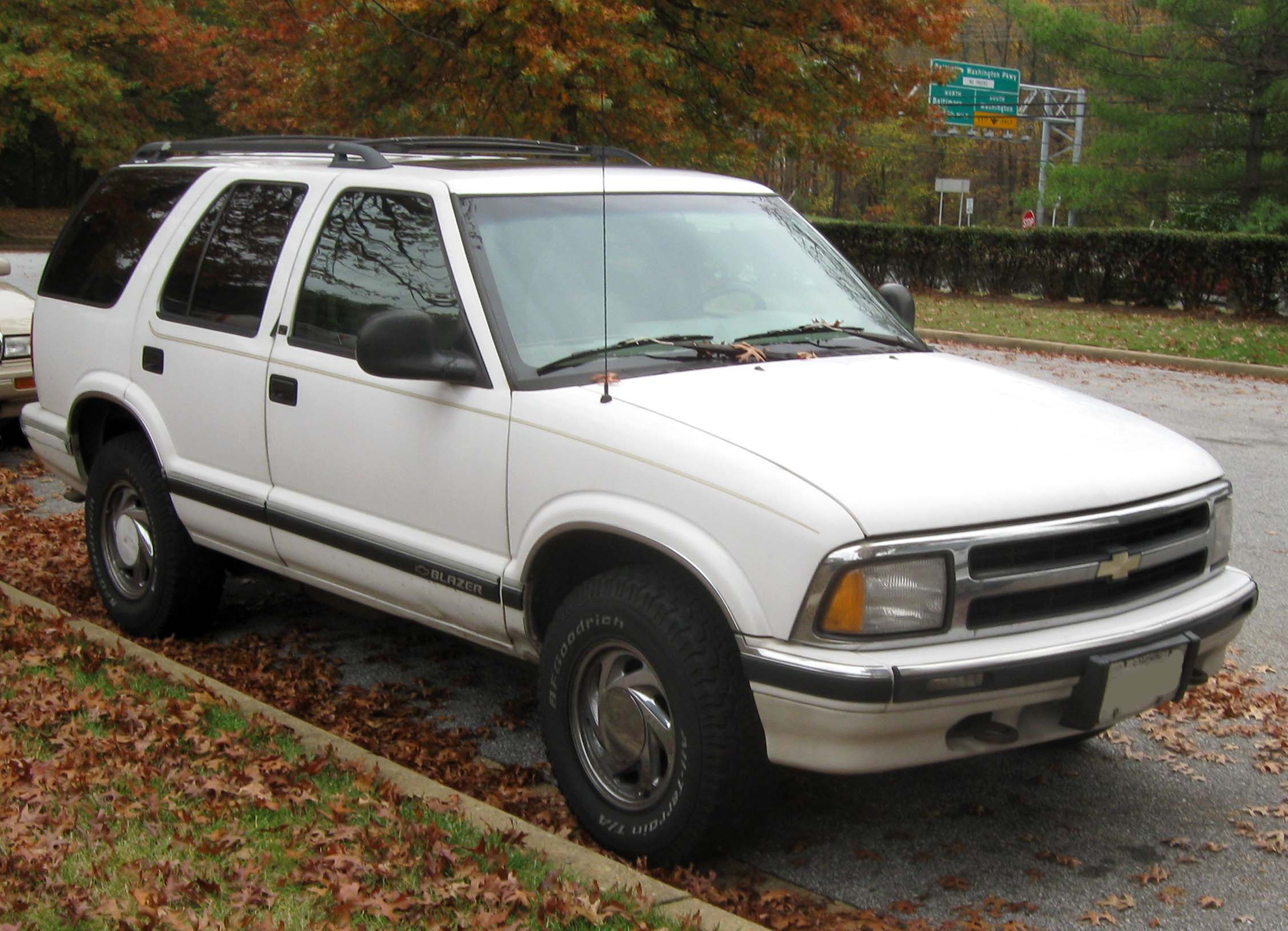 1995-1997 Chevrolet S-10 Blazer LT photographed in Greenbelt, Maryland, USA.